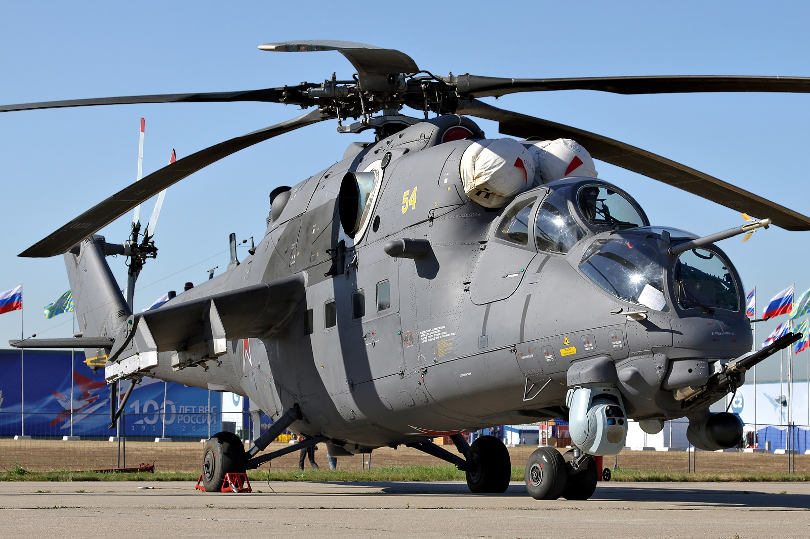 Mil Mi-35M (54 yellow)